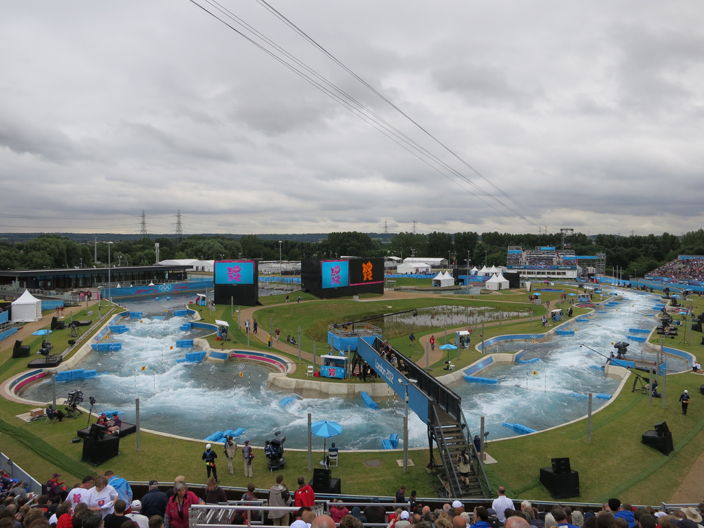 From Olympic viewing stand, gates for C-1 Final, 31 July 2012.